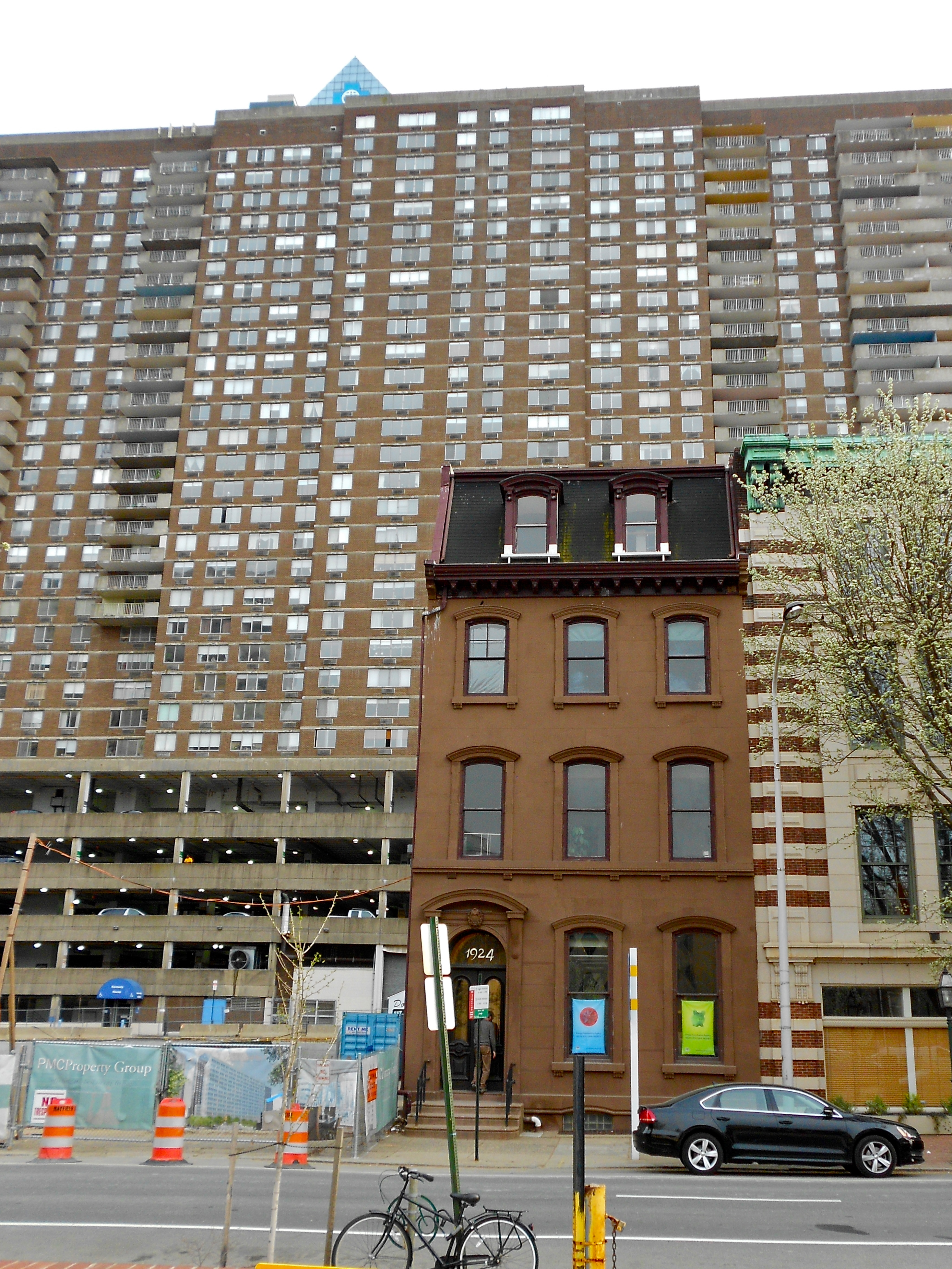 Francis McIlvain House on the NRHP since November 20, 1979. At 1924 Arch Street in the Logan Square neighborhood of Center City, Philadelphia